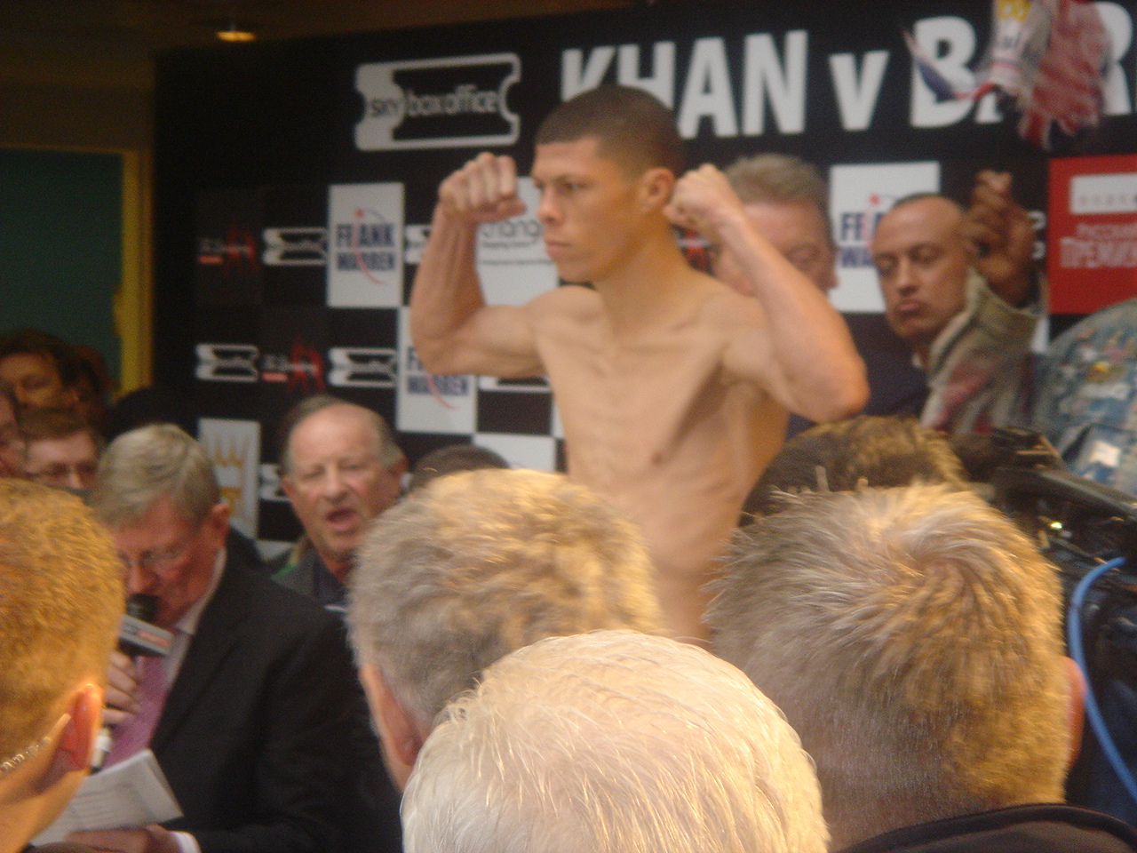 Roman Martinez Puerto Rican boxer